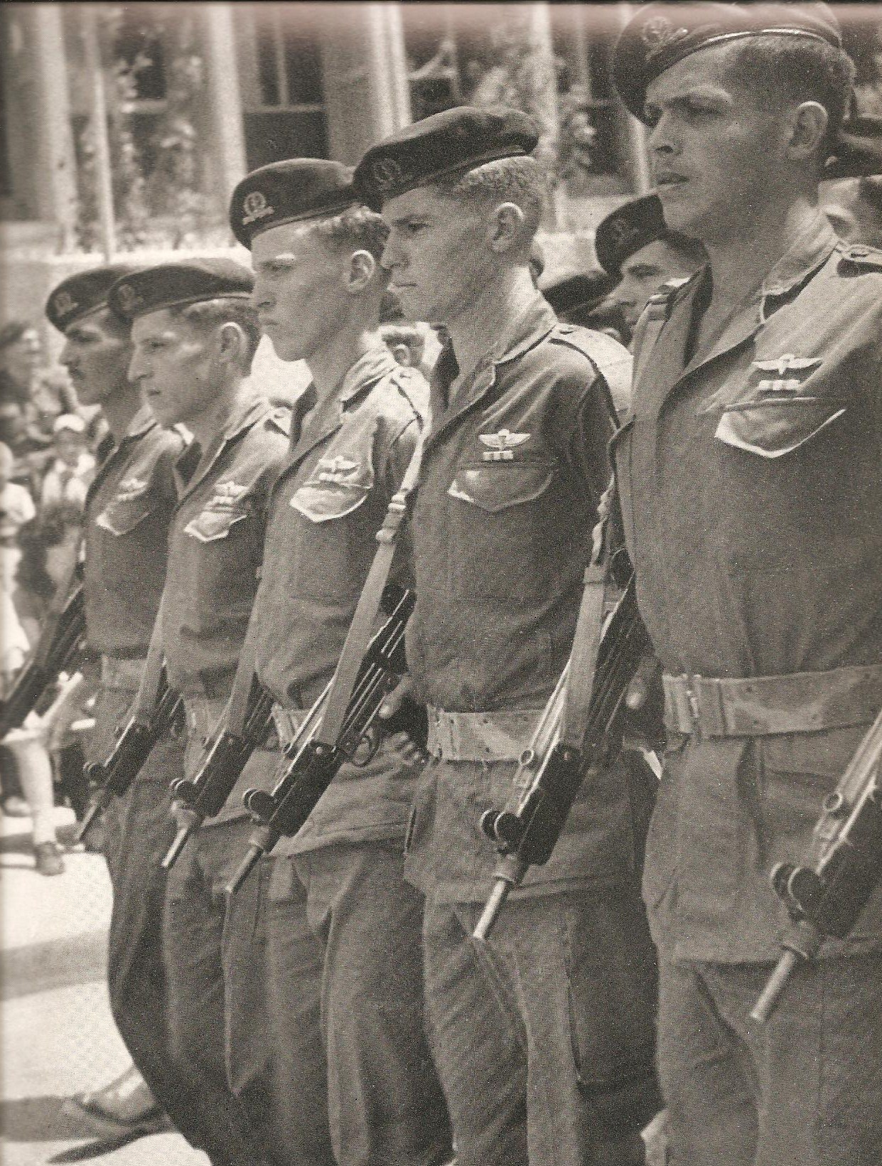 Army soldiers at Israel independence day 1958.